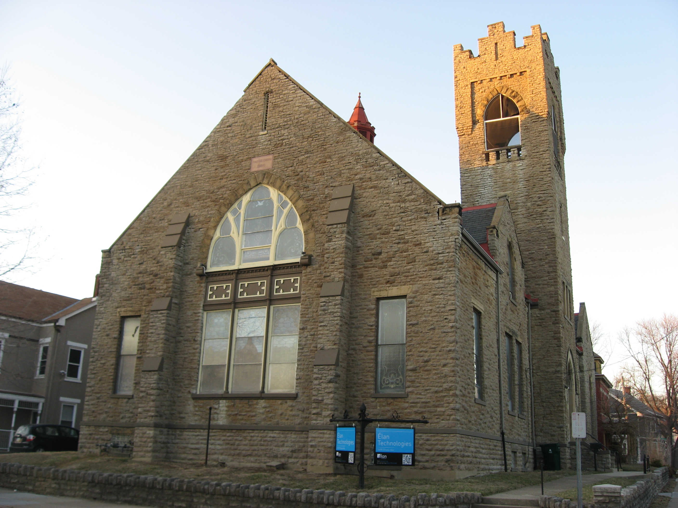 Front of the former Northside United Methodist Church, located at 1674 Chase Avenue in the Northside neighborhood of Cincinnati, Ohio, United States. Built in 1892 according a design by Samuel Hannaford and since closed, it is listed on the National Register of Historic Places.